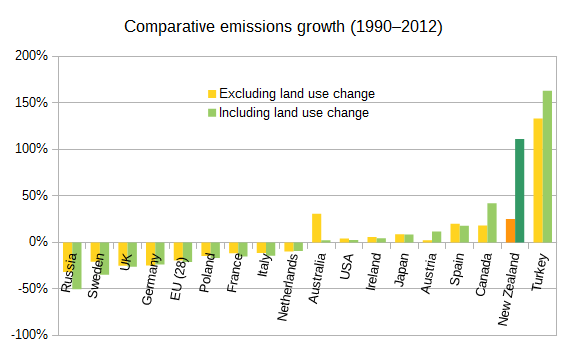 New Zealand's comparative gross and net emissions from 1990 to 2012. Based on data from the UNFCCC.